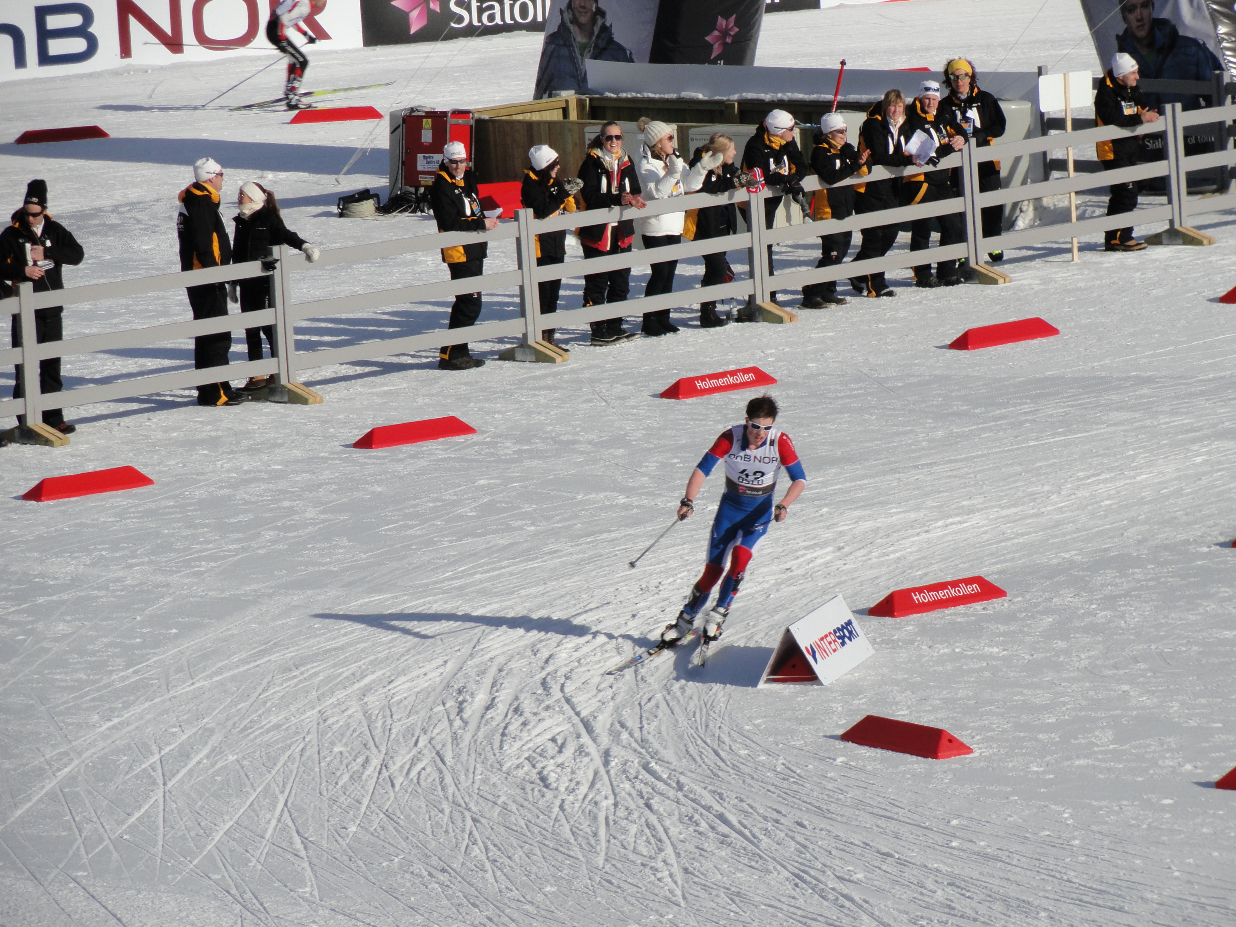 Andrew Musgrawe in World Championschip in Cross Country skiing in Oslo 2011